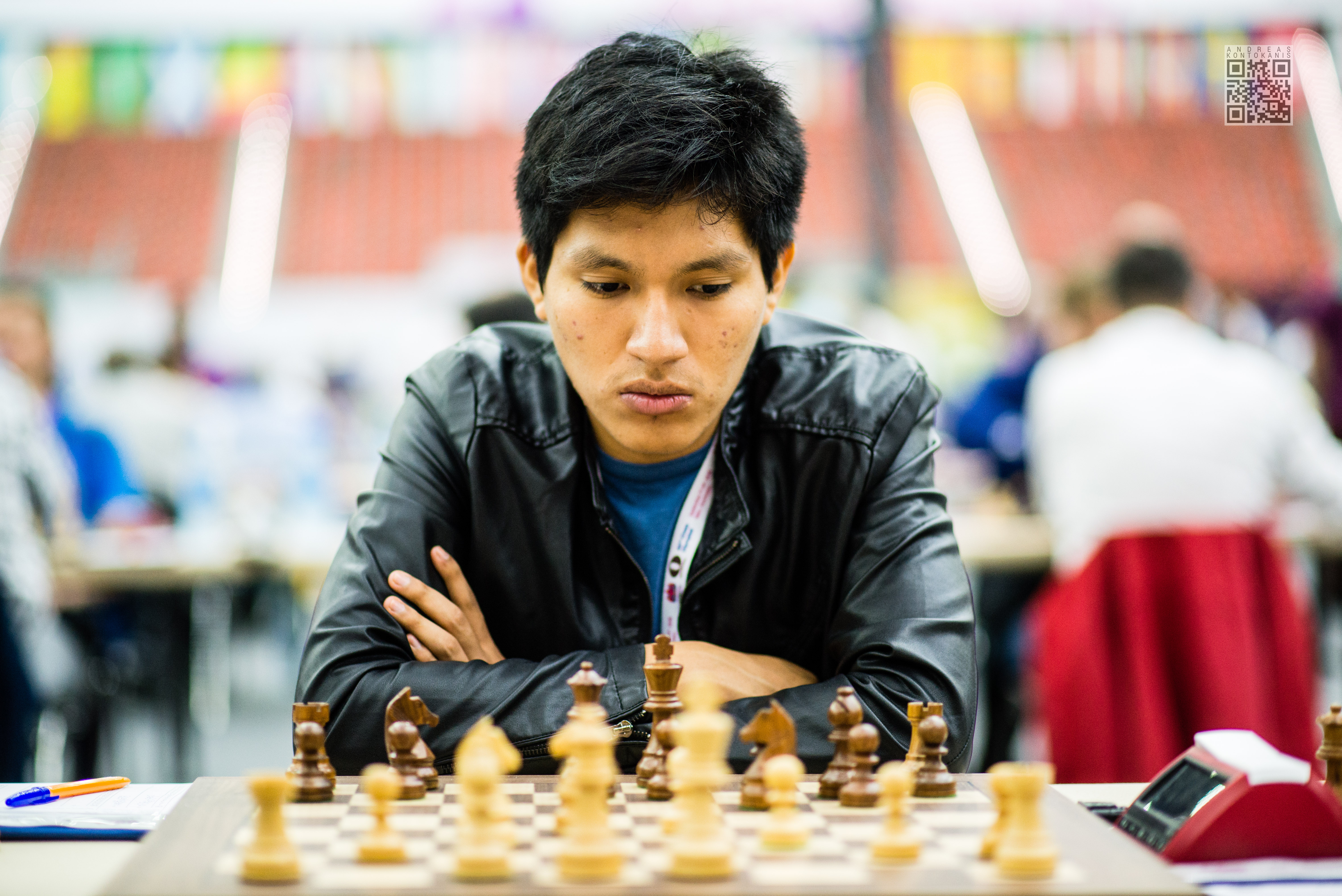 Cori Jorge